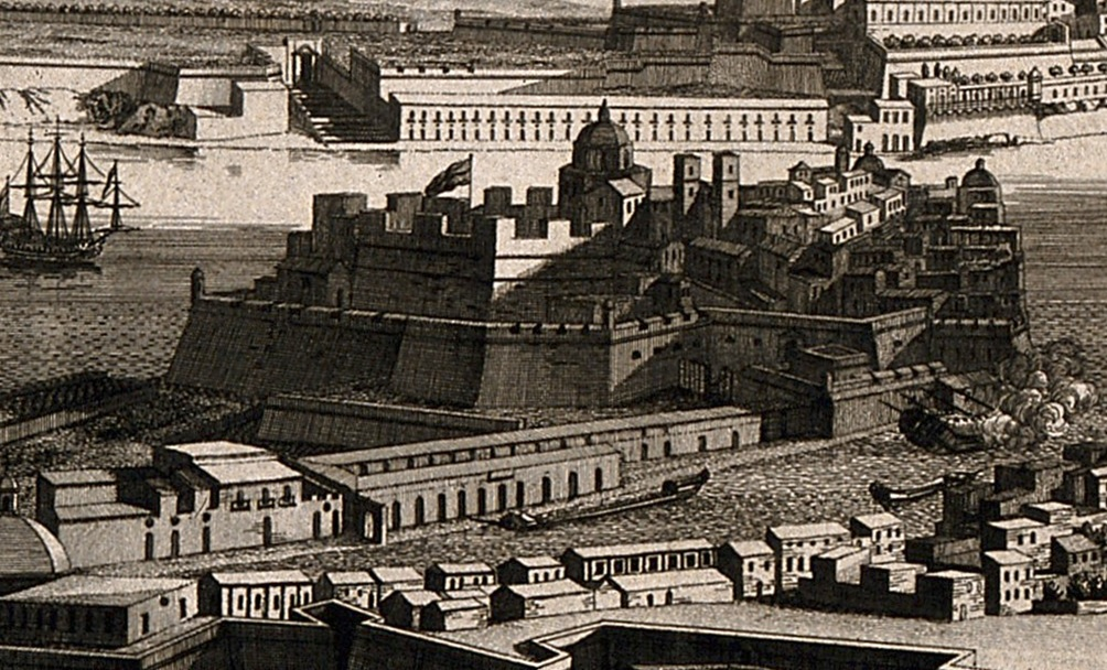 Detail from an etching by M-A. Benoist, c. 1770, after J. Goupy, c. 1725, showing the Senglea Land Front